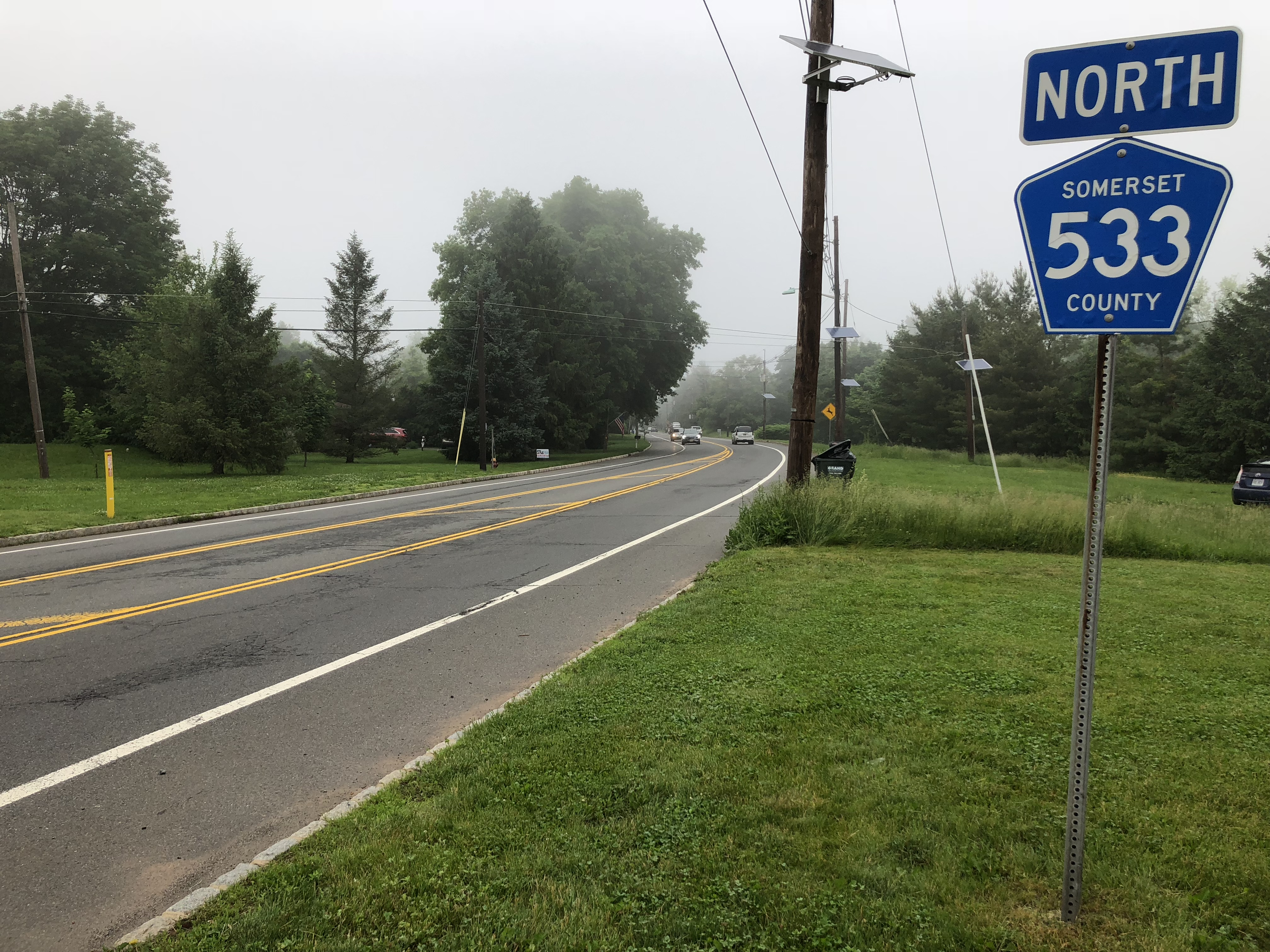 View north along Somerset County Route 533 (Millstone River Road) at Somerset County Route 533 Spur (Somerset Courthouse Road) in Hillsborough Township, Somerset County, New Jersey